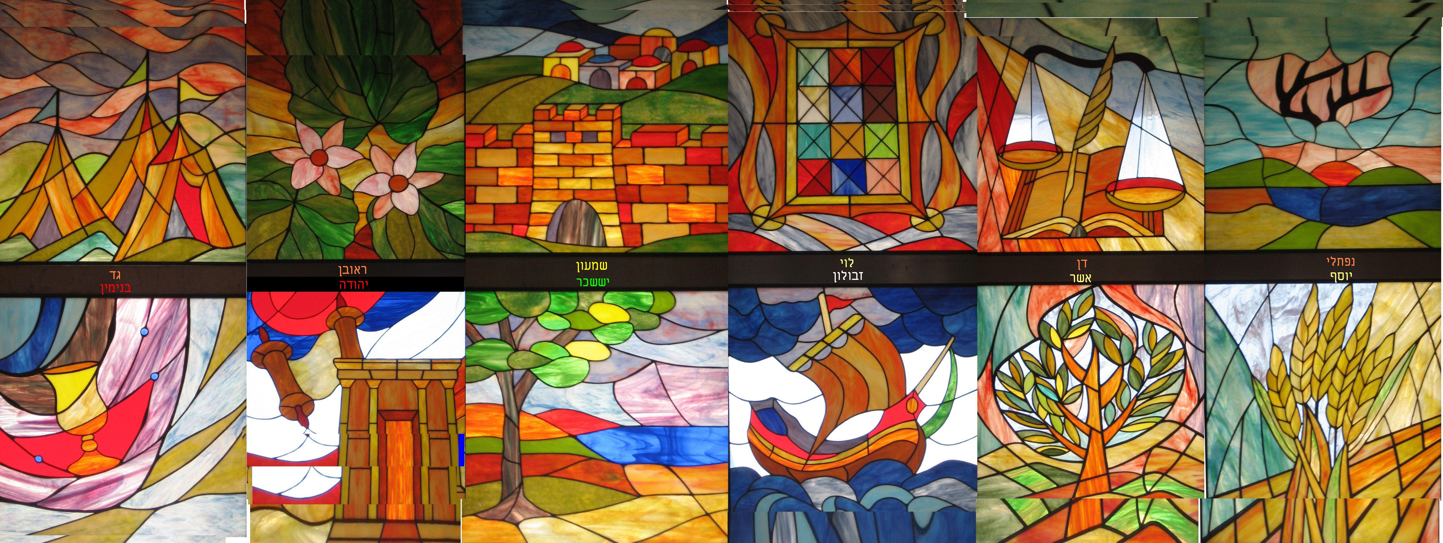 Synagogue_of_new_SHILO as MISCAN 1